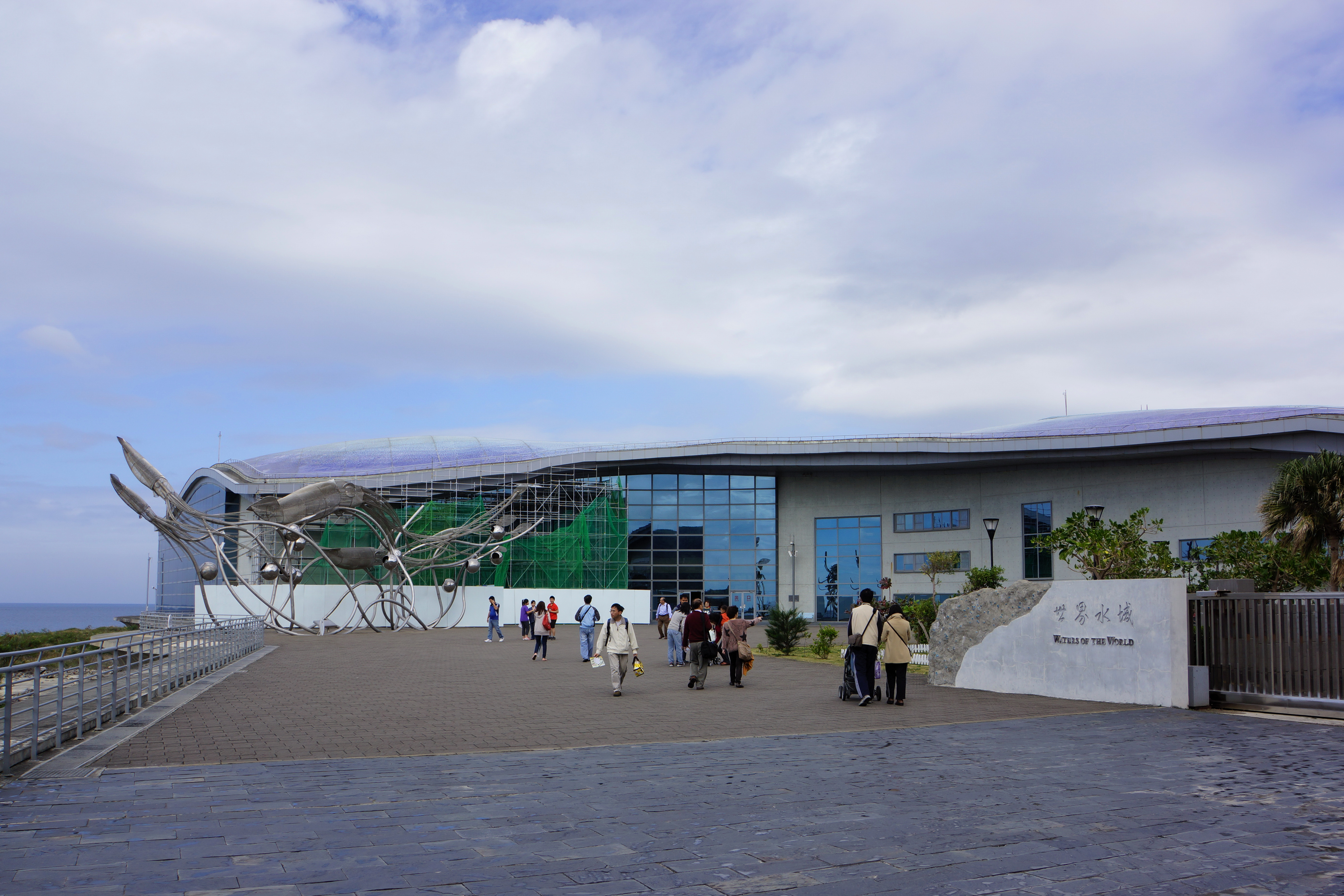 Waters of the World, National Museum of Marine Biology and Aquarium.